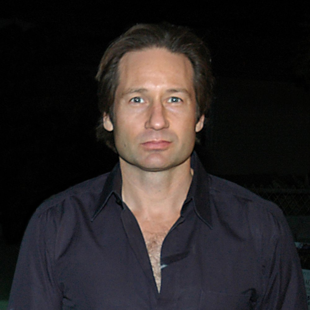 Crooped version of American actor David Duchovny at the Ford and project7ten Sustainable/Green Home opening party. Photo released by the Ford Motor Company.